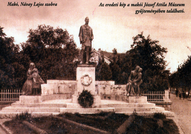 Statue of Lajos Návay in Makó, Hungary. Nowadays only the two side statues remained, the center part of the monument is destroyed.